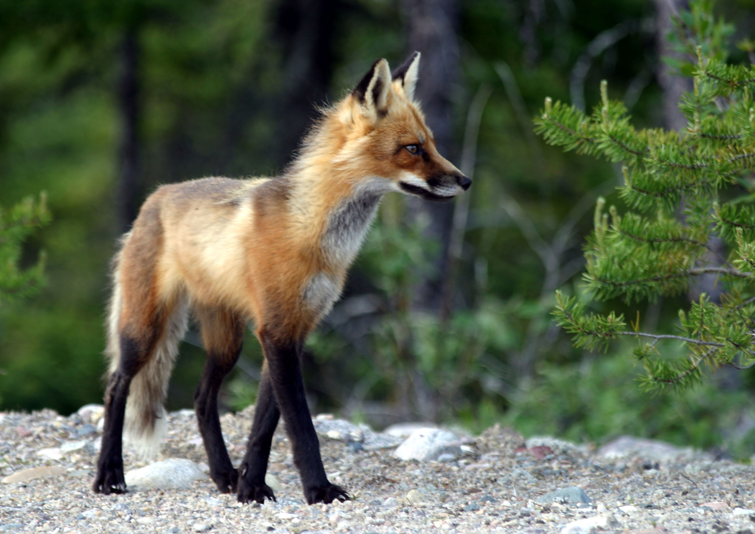 This big fox (Vulpes vulpes bangsi) was seen in Quebec, Canada